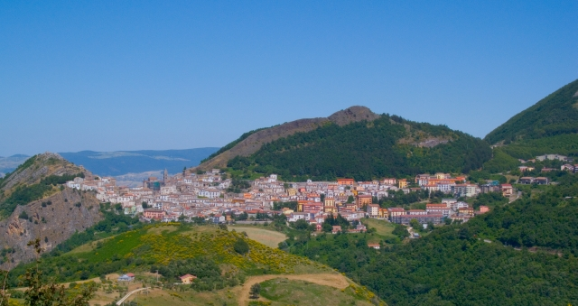 View of San Fele (Basilicata)